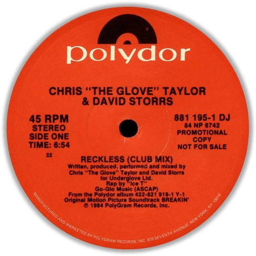 Side A of Ice-T, Chris "The Glove" Taylor and Dave Storrs 12-inch single "Reckless" / "Tebitan Jam". This is a promotional copy of the record and was released in 1984 on Polydor Records.